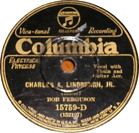 Scan of record label.